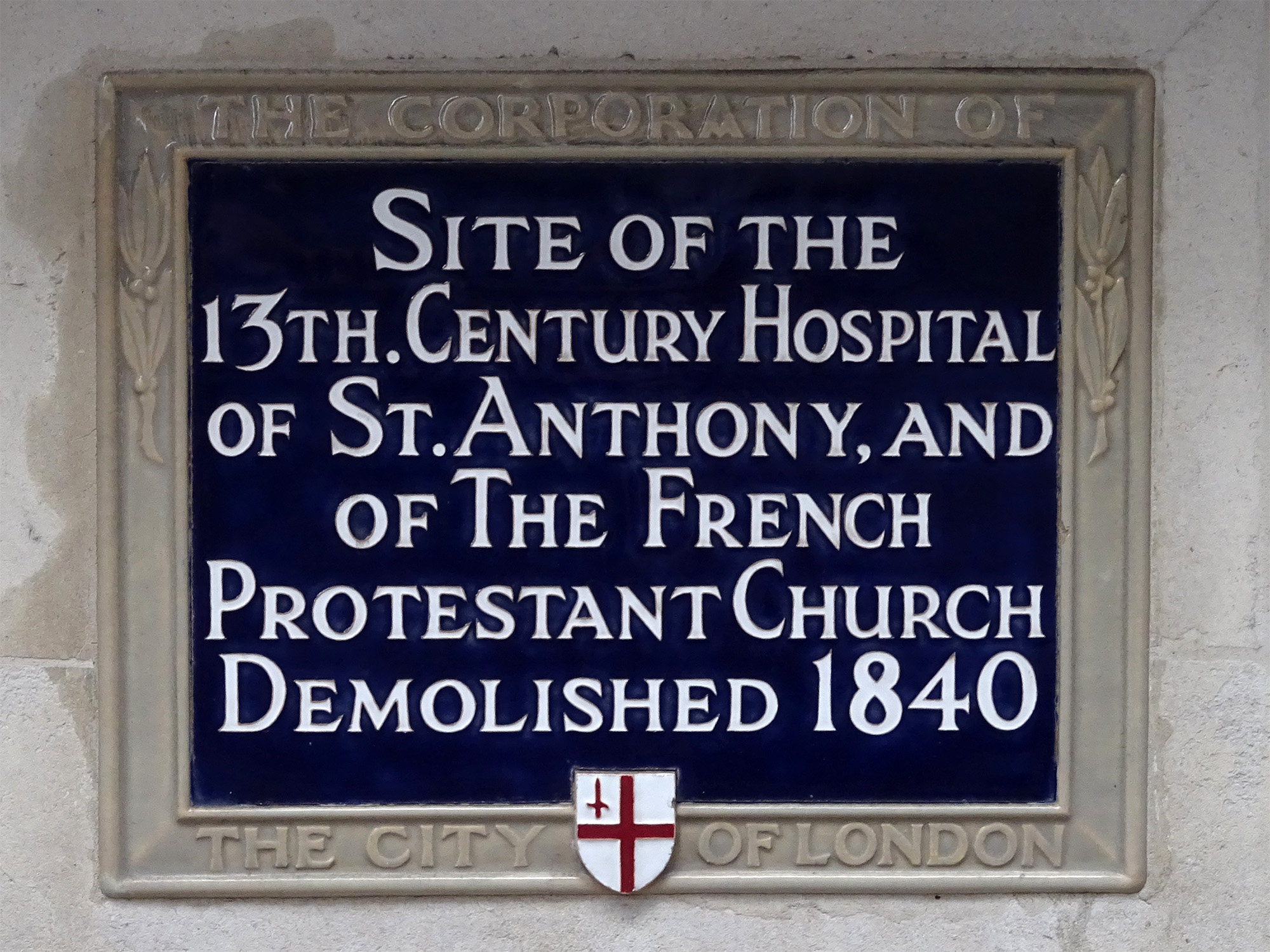 Blue plaque erected by the Corporation of the City of London at 52 Threadneedle Street, London EC2R 8AY